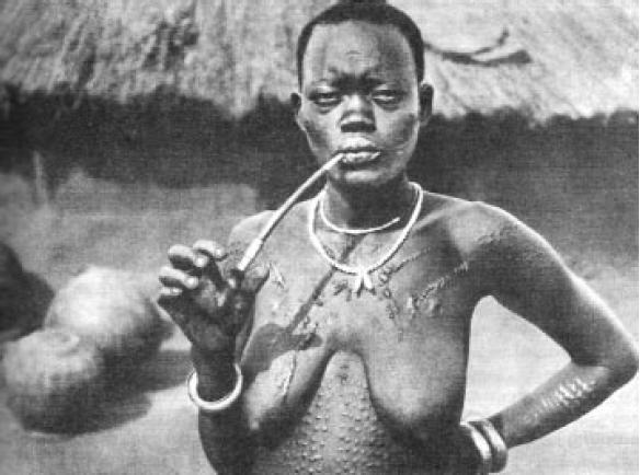 An African woman from Shilluk tribe smoking a pipe (photo taken near Malakal town, South Sudan). The photo probably taken by Kazimierz Nowak (1897-1937) during his trip through Africa - a Polish traveller, correspondent and photographer. Probably the first man in the world who crossed Africa alone from the North to the South and from the South to the North (from 1931 to 1936; on foot, by bicycle and canoe).